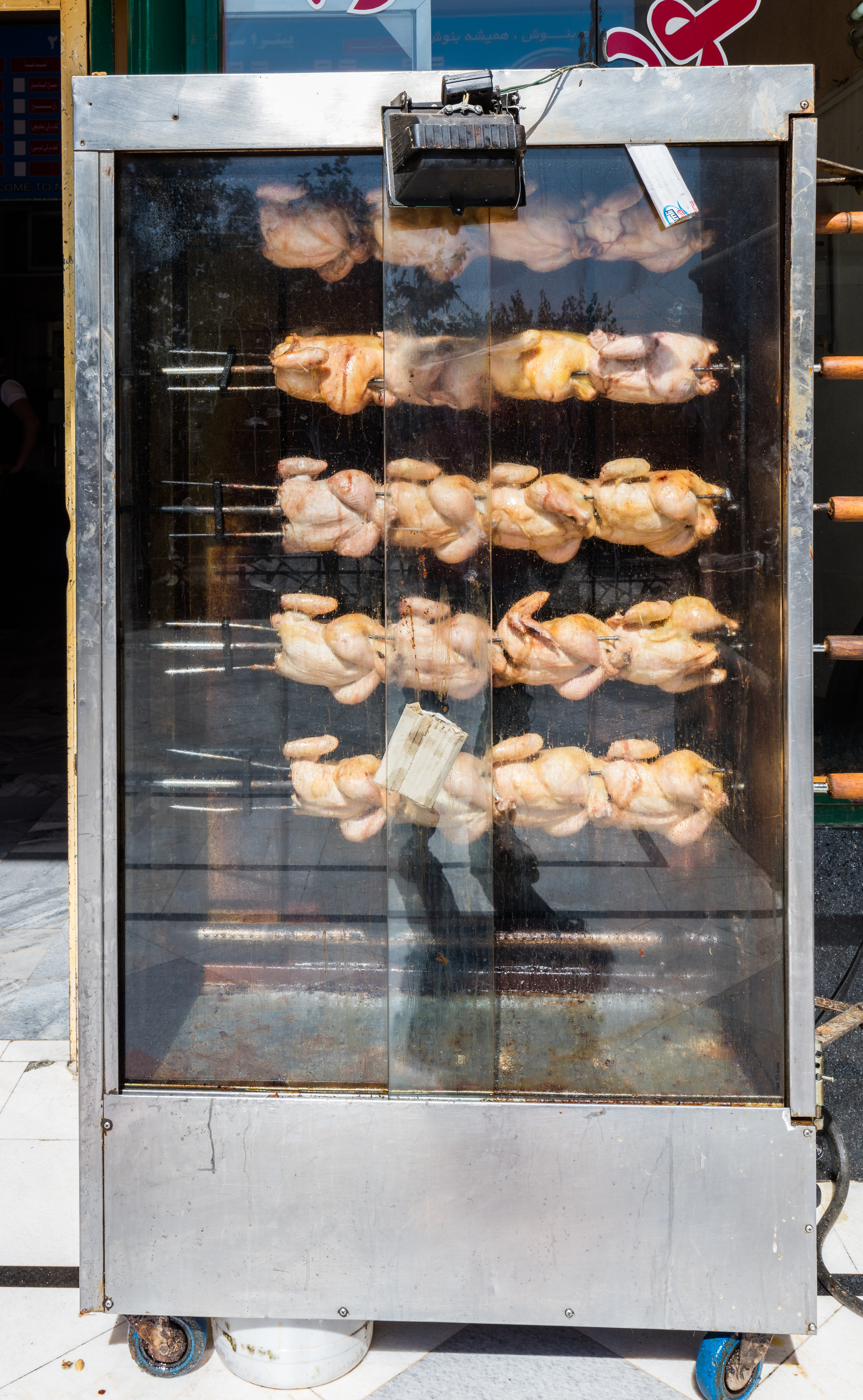 Roasted chicken restaurant, Tehran, Iran